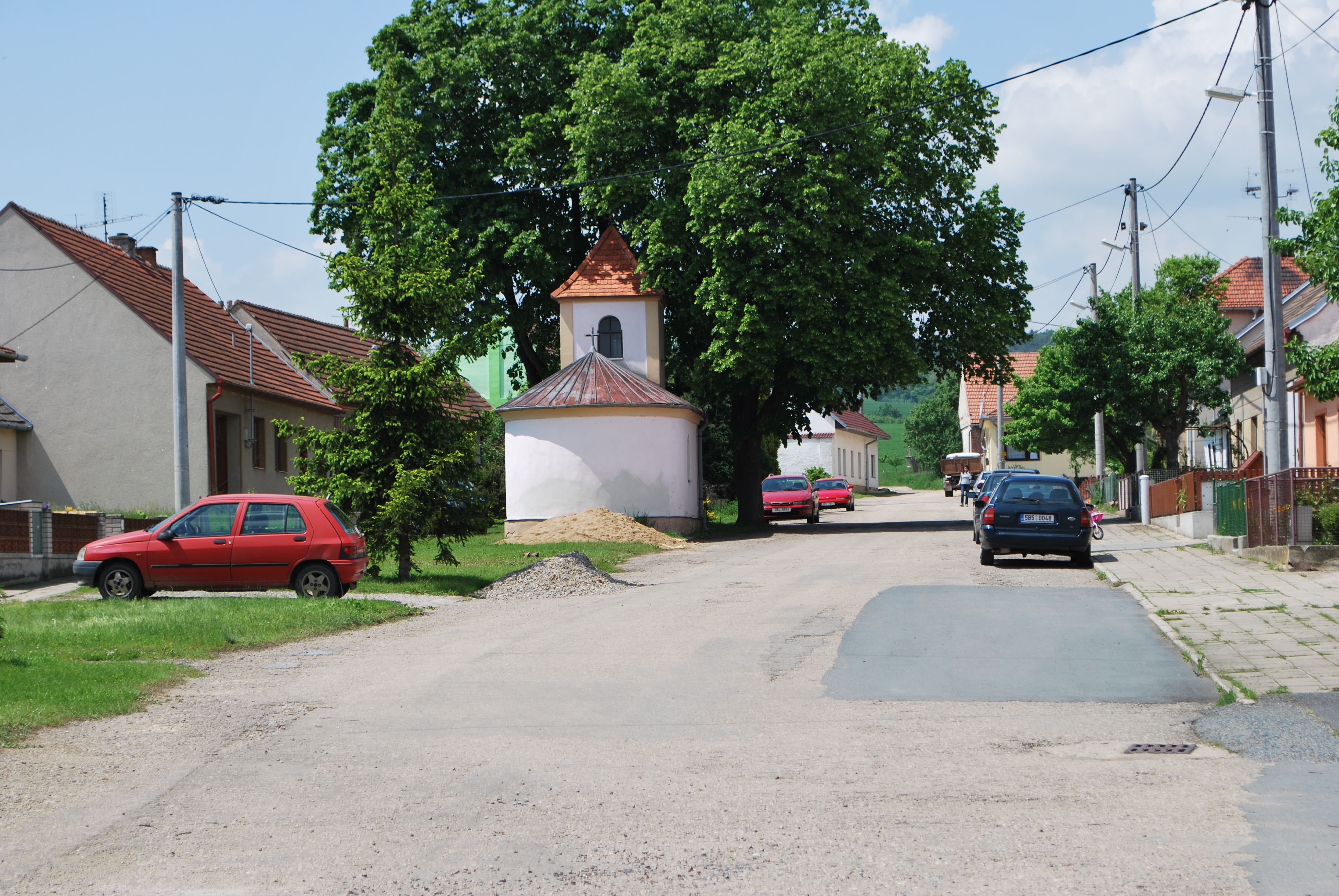 Biskoupky, Brno-Country District, Czechia.